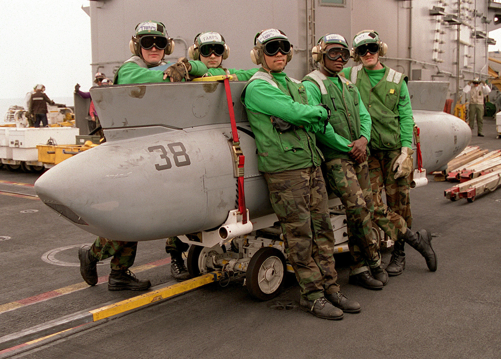 Onboard the Nimitz Class Aircraft Carrier, USS JOHN C. STENNIS (CVN-74), Photographer's Mates, of VF-143, wait for a F-14 Tomcat jet fighter (Not shown) to land on the ship's flight deck to load a TARPS pod (Tactical Air Reconnaissance Pod System) on the aircraft. The Nuclear powered aircraft carrier is deployed to the Persian Gulf in support of the Southwest Asia build-up.(Officially released by COMFIFTHFLT Public Affairs)